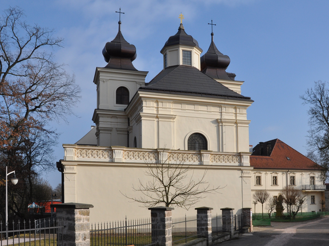 Zirec - The Church of St. Anne